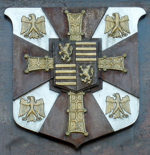 Photograph of crest mounted above the main door into Gonzaga College, Dublin. Coat of arms in the centre of the Duchy of Mantua and its rulers from 1328, the Gonzaga family.